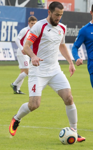 Aslan Dashayev with PFC Spartak Nalchik in a game against FC Dynamo Moscow.